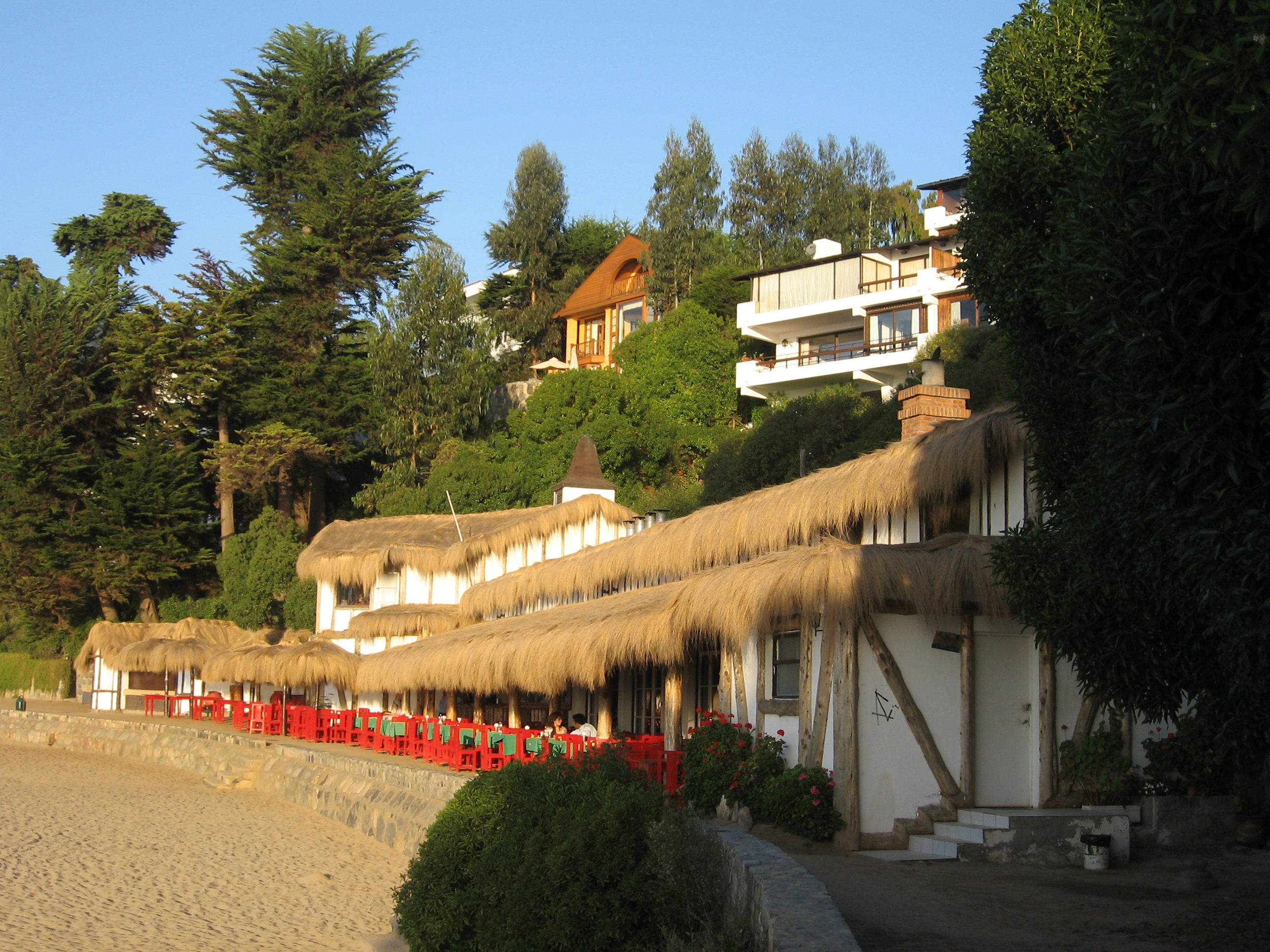 Zapallar Beach, Chile